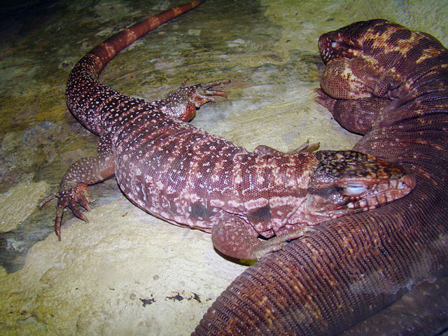 Red Tegu Lizards of Argentina at the Buenos Aires zoo. g= In context at